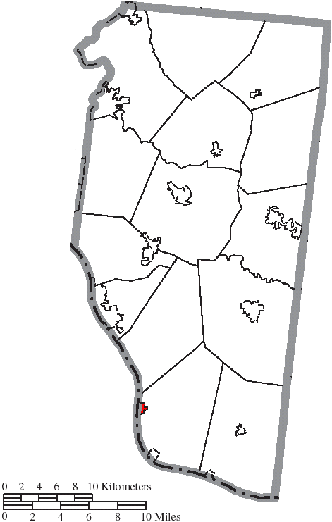 Map of the municipal and township boundaries of Clermont County, Ohio, United States, as of the 2000 census, with the location of the village of Moscow highlighted. Township borders are shown only in unincorporated areas in order to differentiate incorporated and unincorporated areas more clearly.